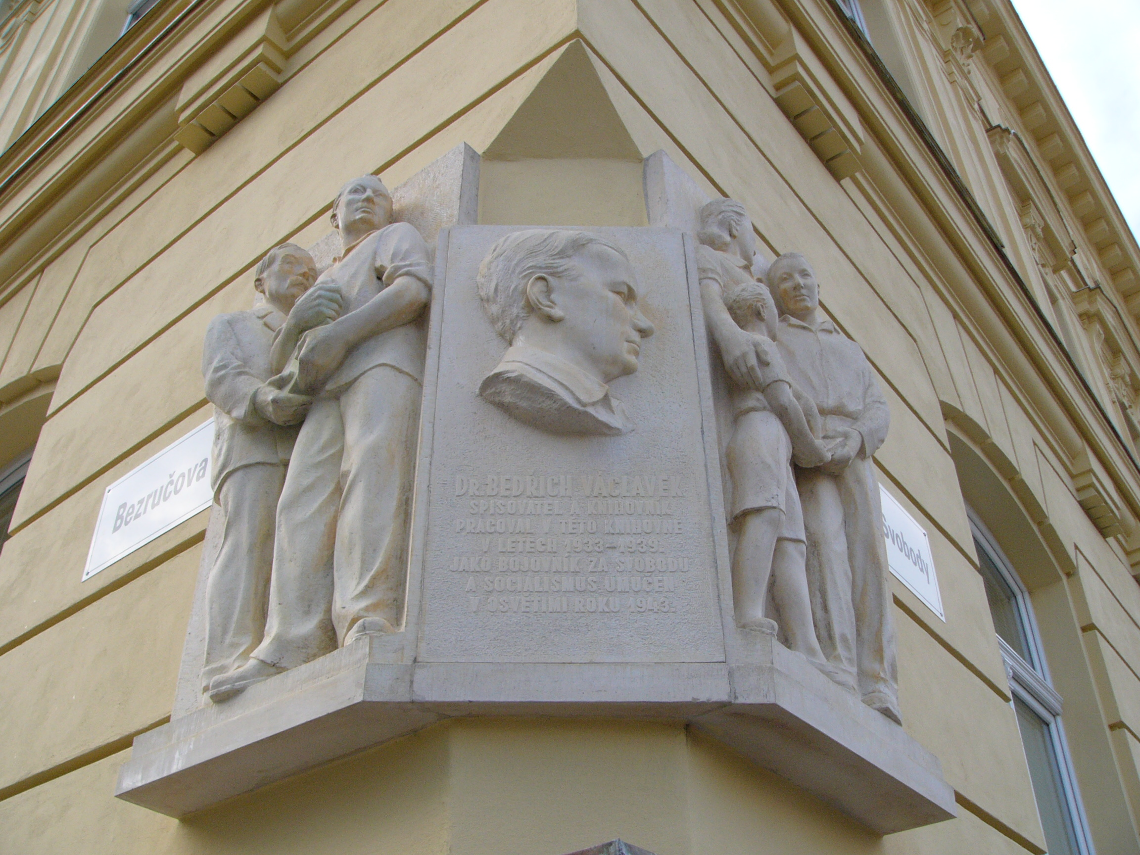 Memorial plaque dedicated to Bedřich Václavek by Jára Šolc in Olomouc (Czech Republic).